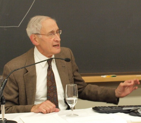 Harvard Law School Professor and former Solicitor General Charles Fried.